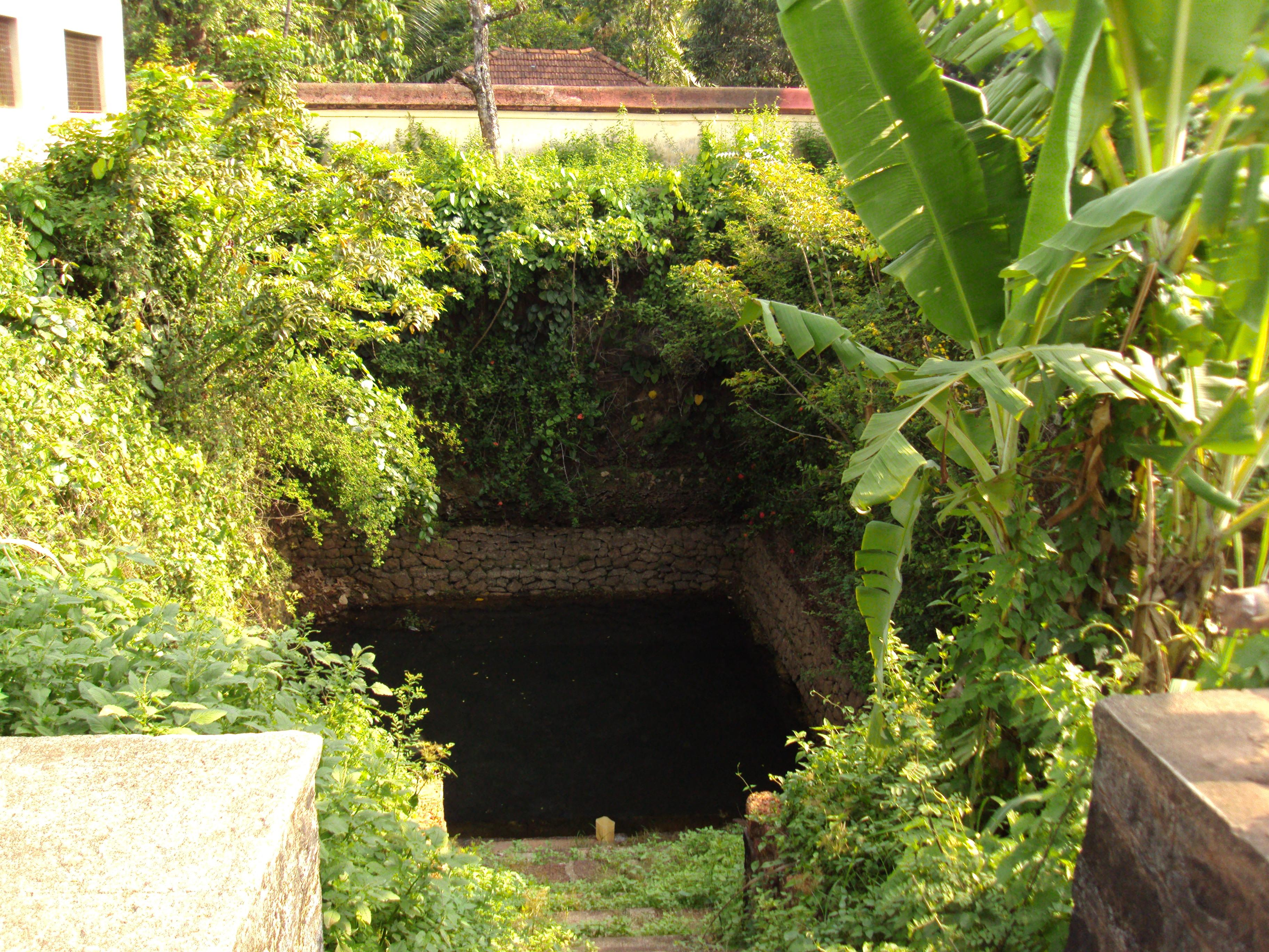 Vazhappally Temple : Ilavanthi Theertham